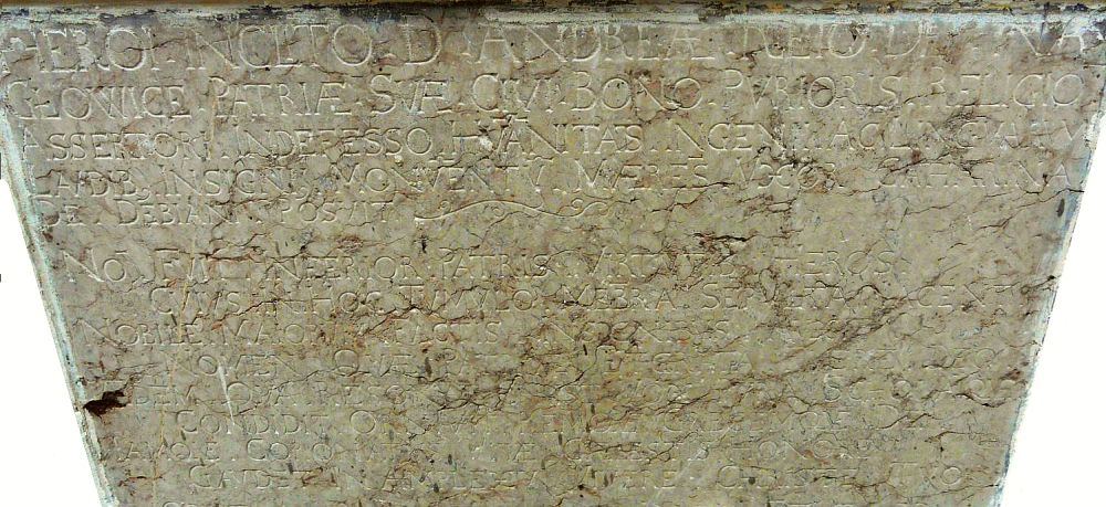 Epitaph of Andrzej Rey, Church of St. Nicholas in Oksa